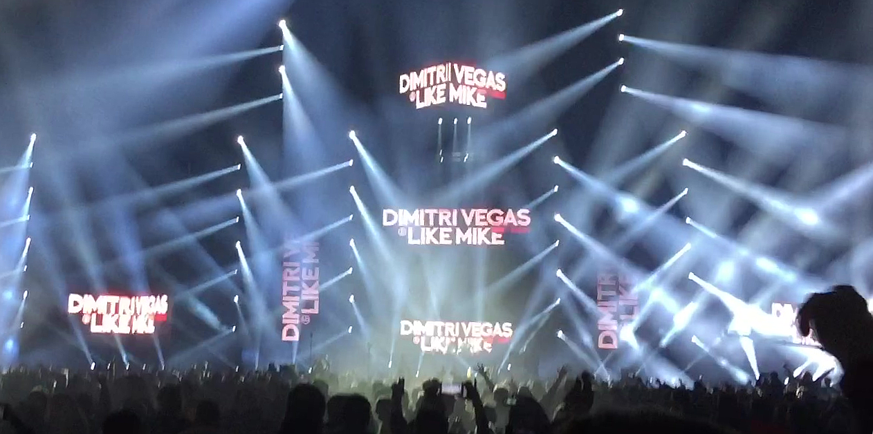 Dimitri Vegas & Like Mike at BigCityBeats World Club Dome Winter Edition at Veltins-Arena in Germany.